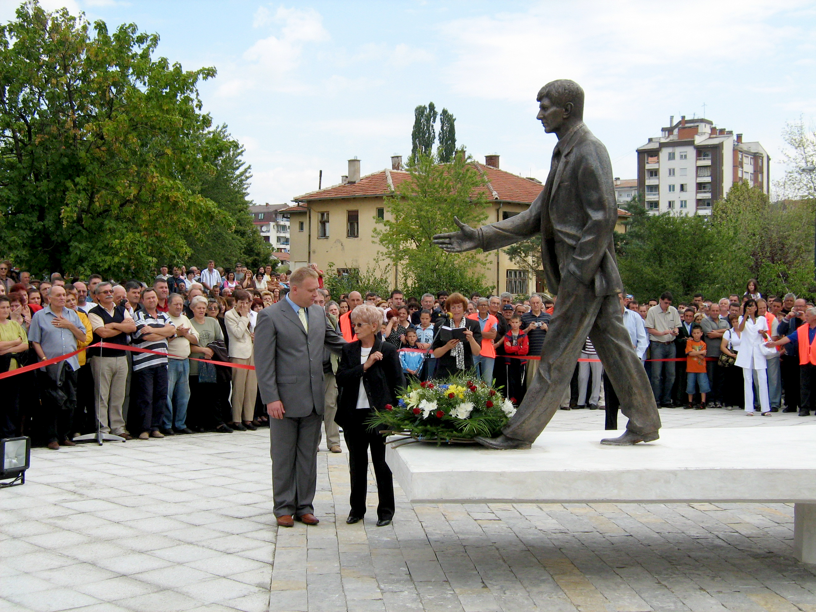 Mila Đinđjić during a ceremony to uncover a monument to her son, killed Serbian President Zoran Đinđjić